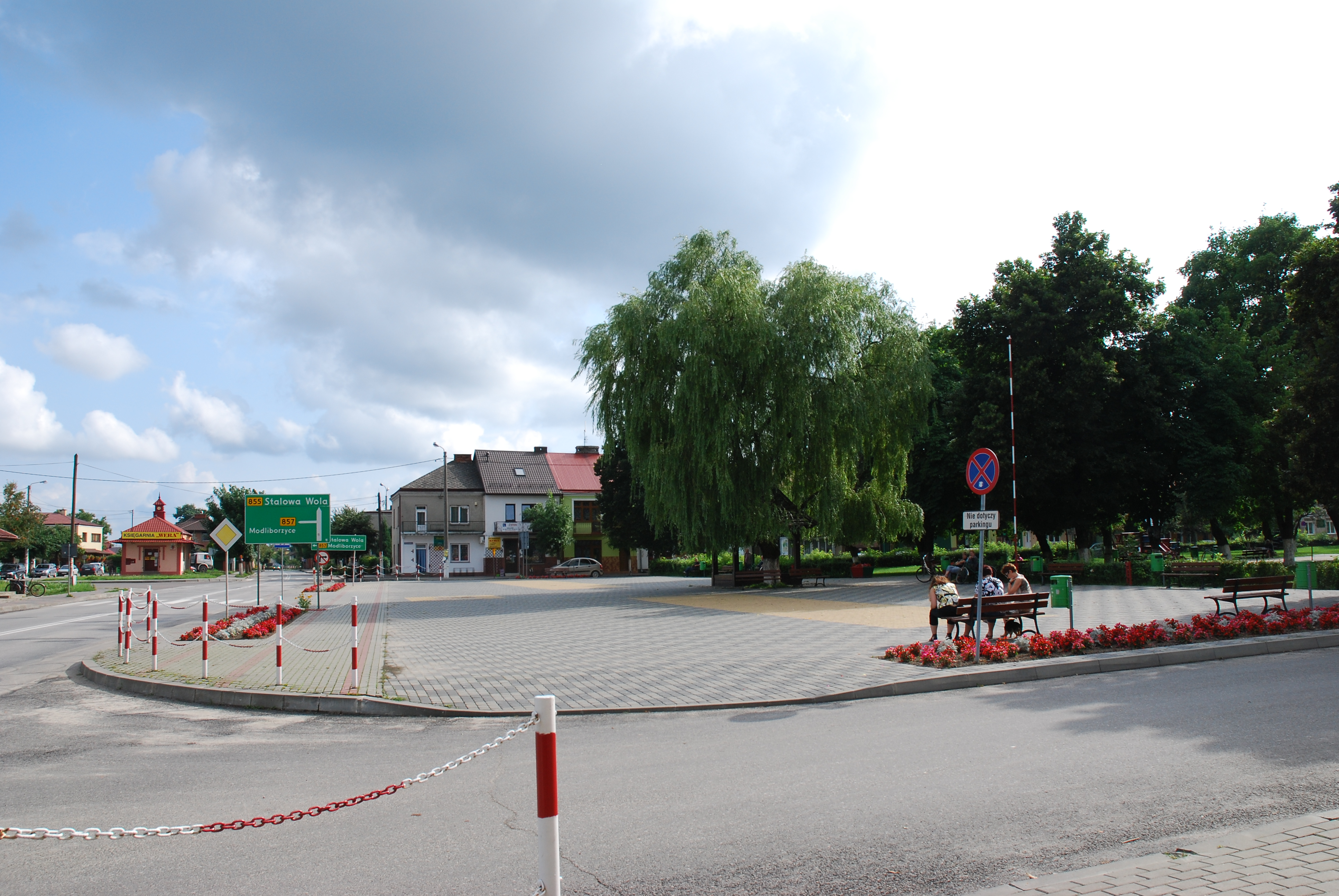 Main square (Sienkiewicz Square) in Zaklików